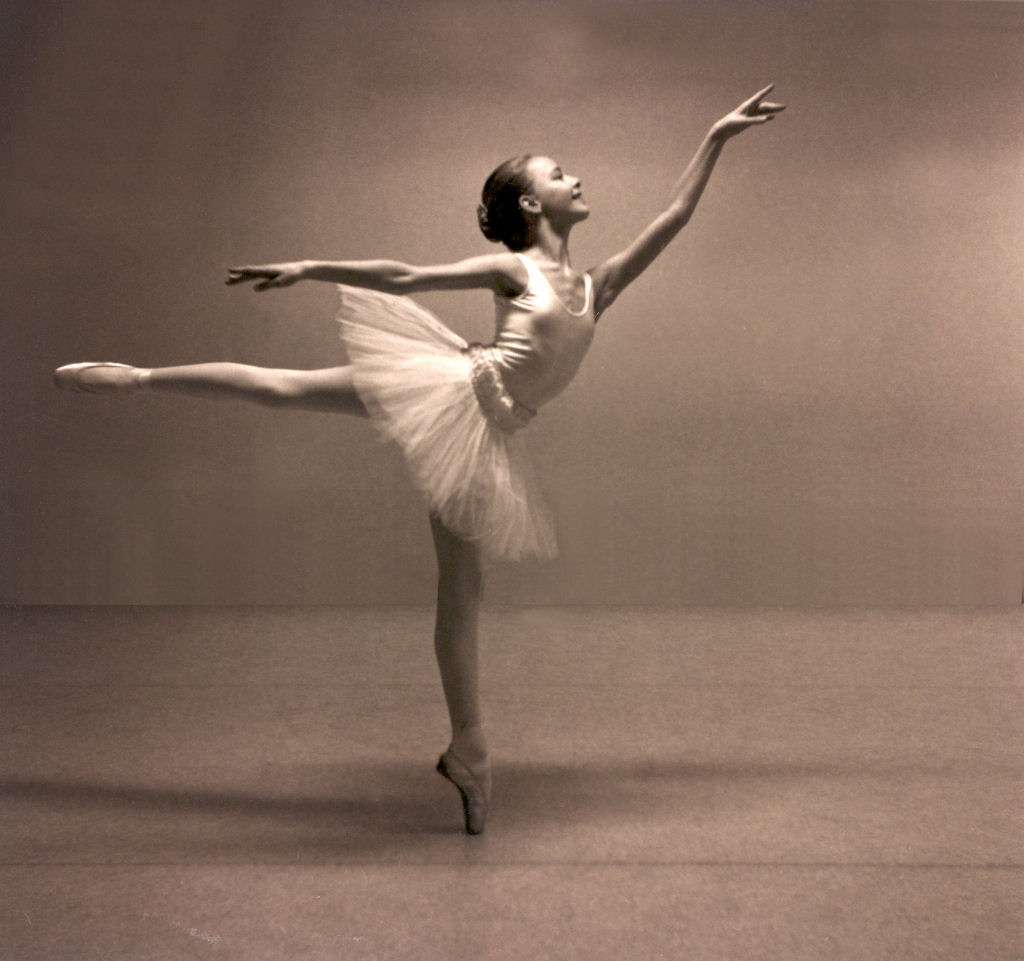 Photo of the authors daughter Silje